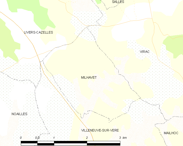 Map of French municipality Milhavet